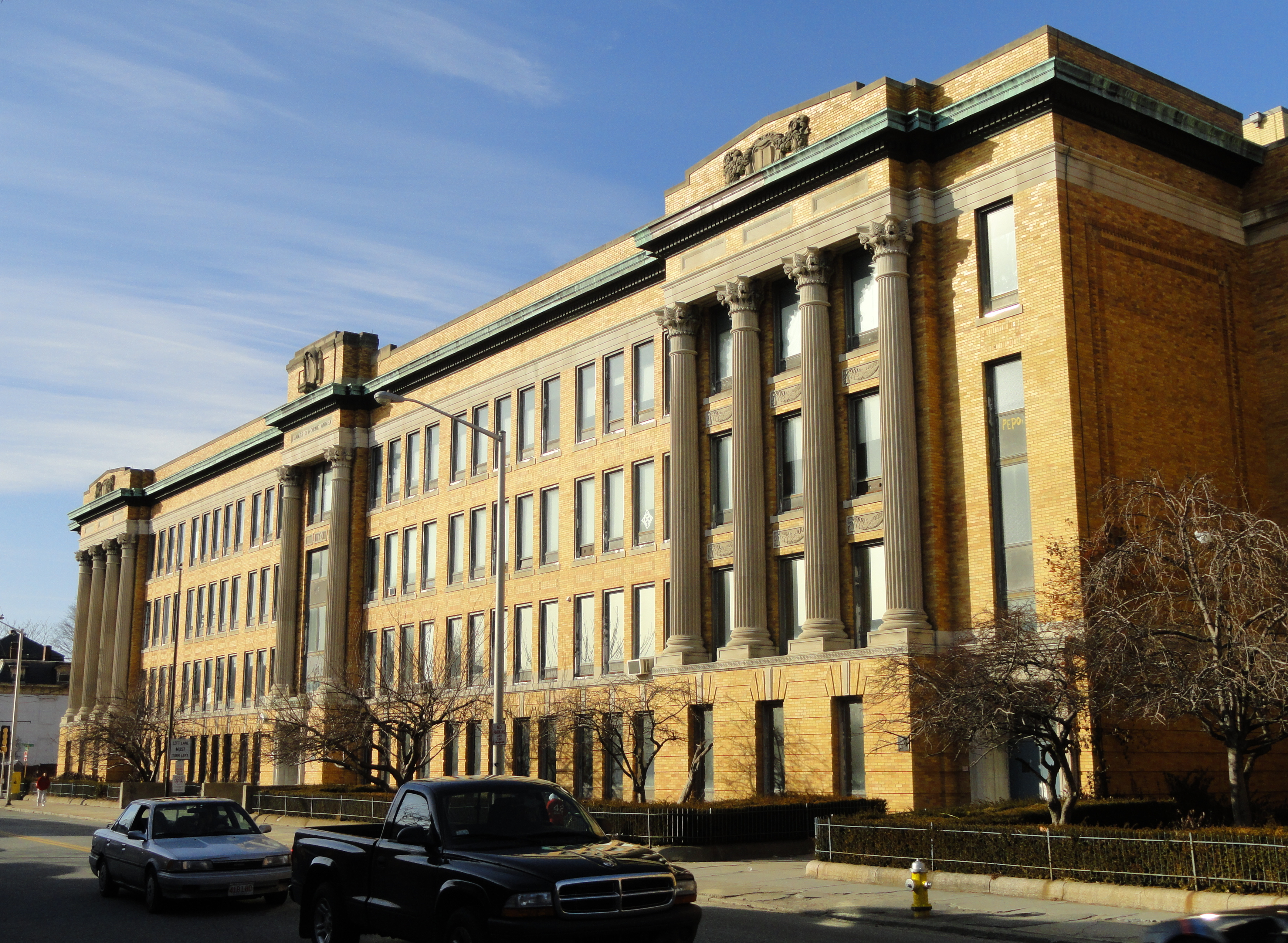 Old Lawrence High School (James D. Horne Annex), Lawrence, Massachusetts, USA.